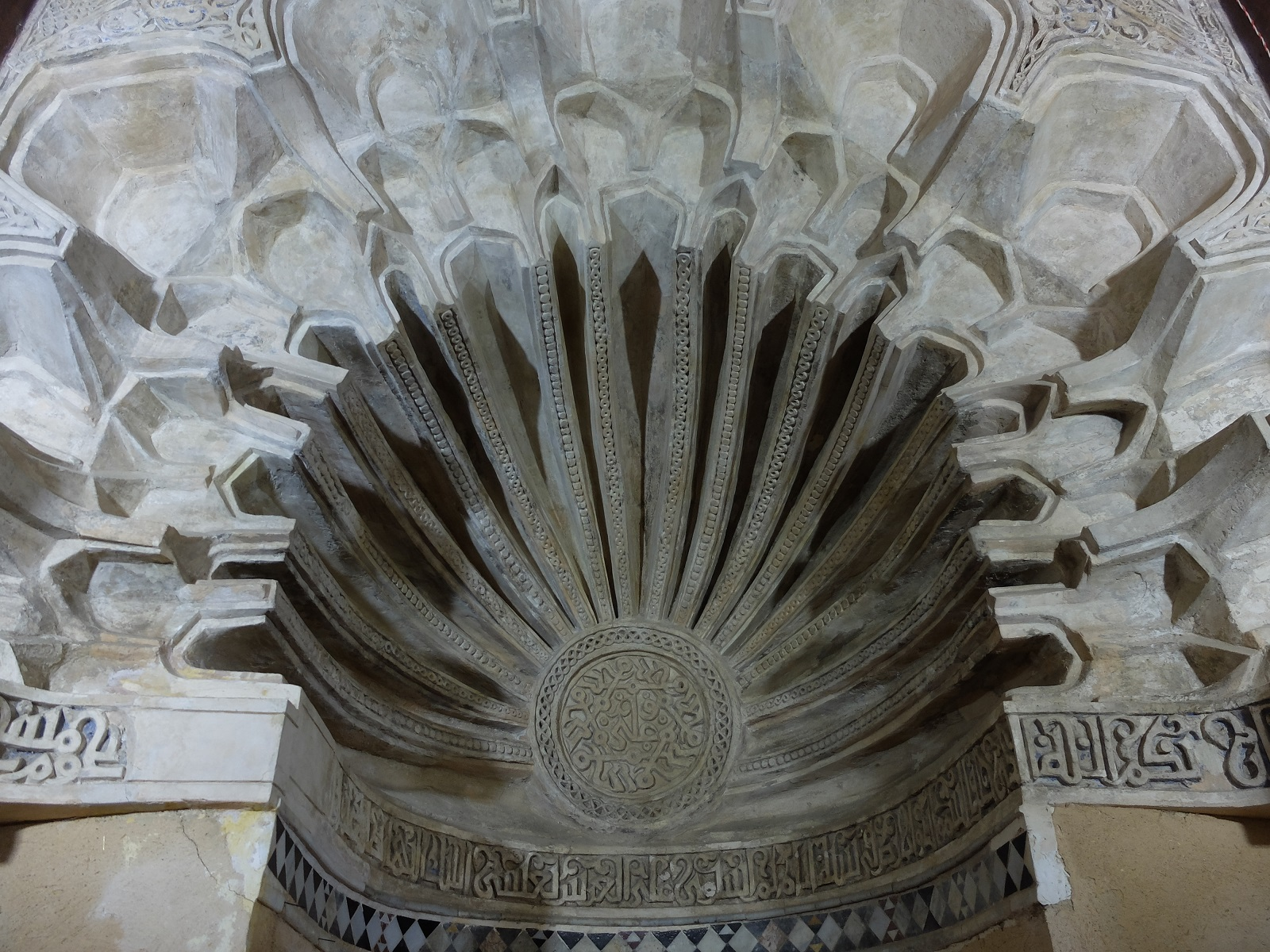 Central mihrab in stucco of the Mashhad of Sayyida Ruqayya. (After recent restoration.)